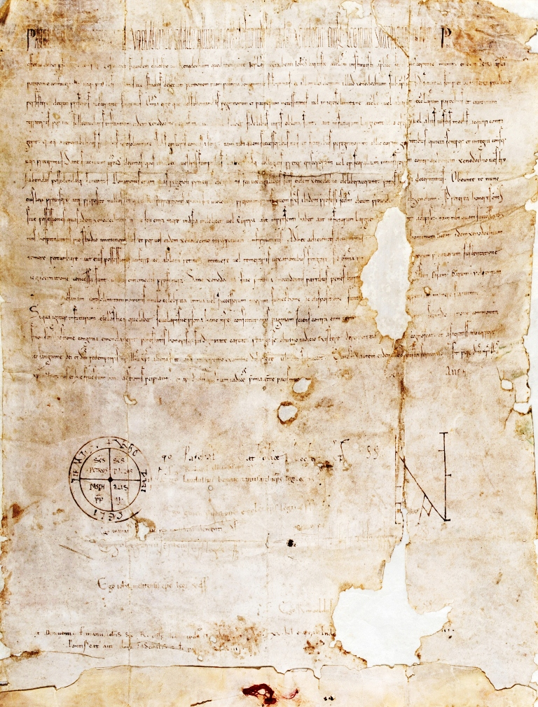 Papal bull Pie Postulatio Voluntatis confirming the foundation of the Knights of Malta, dated 15th February 1113